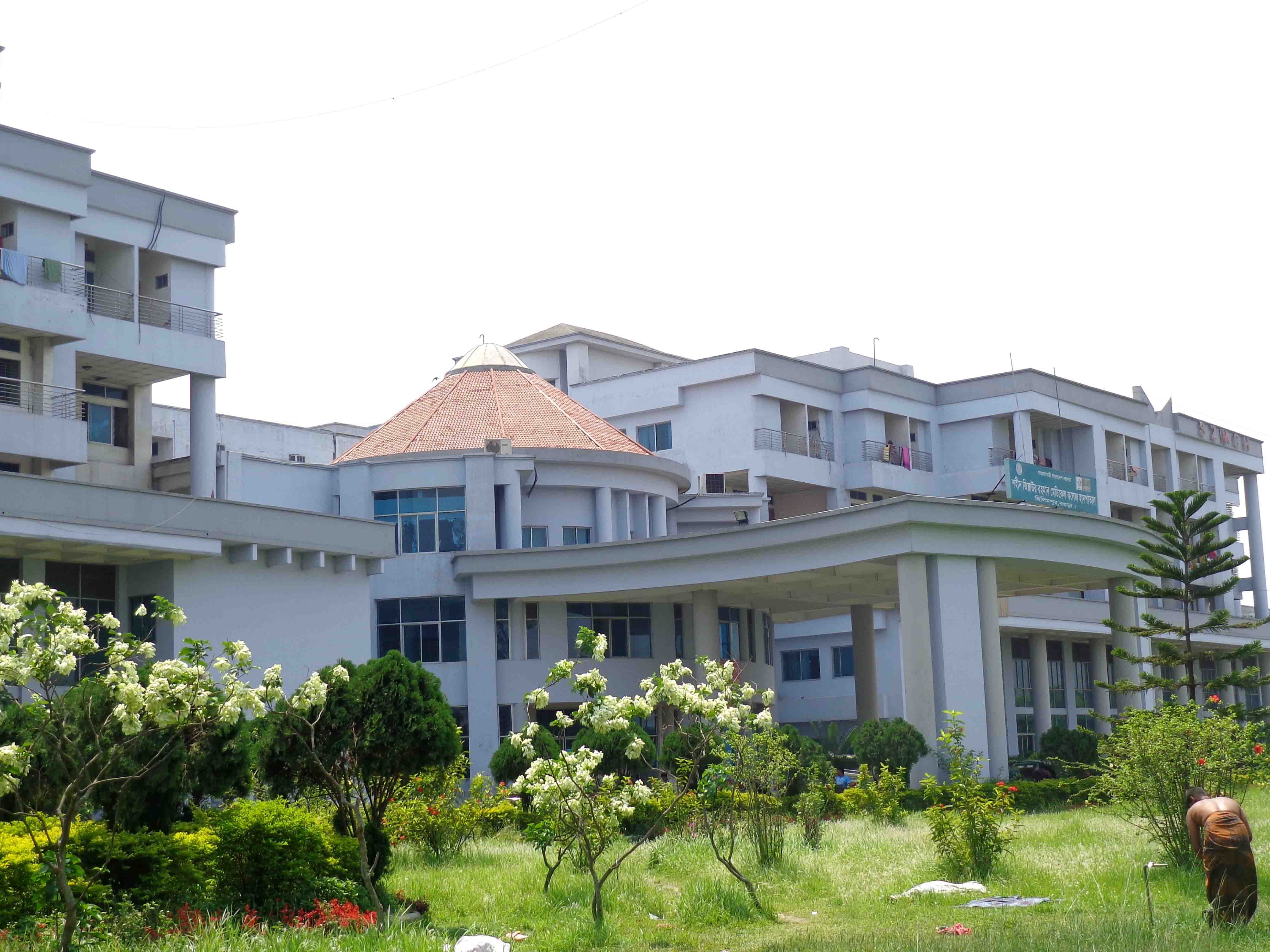 শহীদ জিয়াউর রহমান মেডিকেল কলেজ হাসপাতাল, বগুড়া।